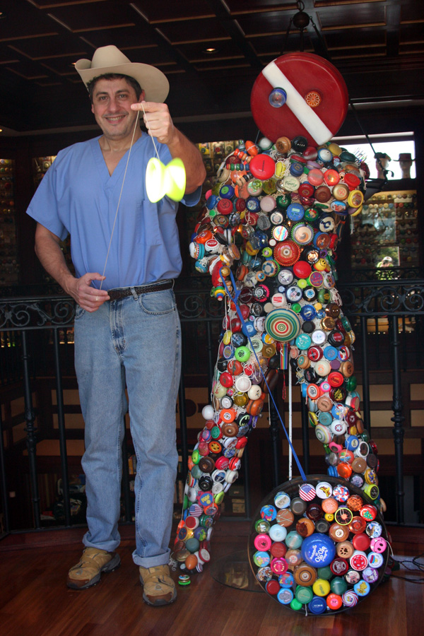 Lucky Meisenheimer standing next to Mr. Bandalore a statue made from 603 different yo-yos.